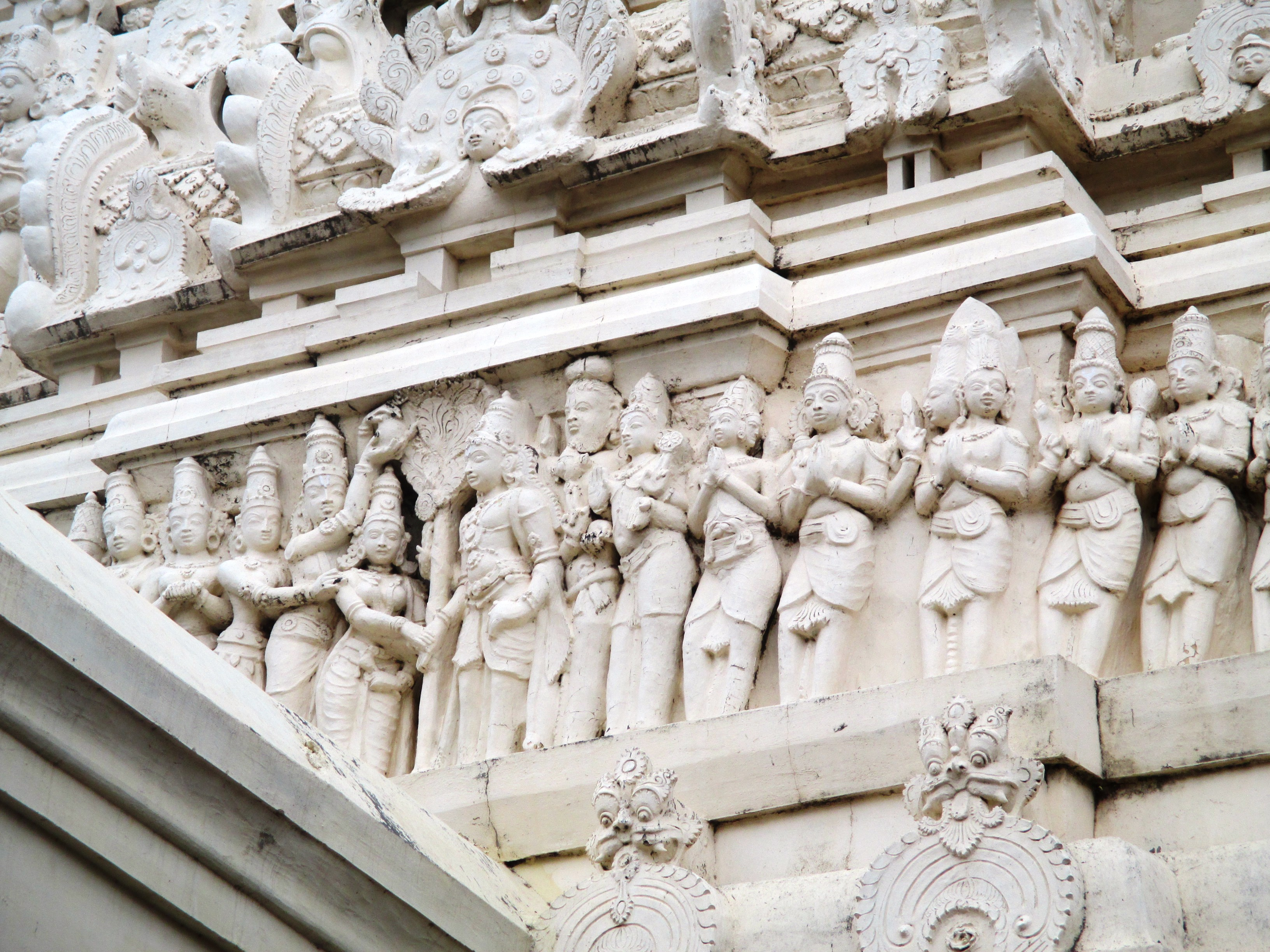 Sri Azhagiya Manavala Perumal Temple